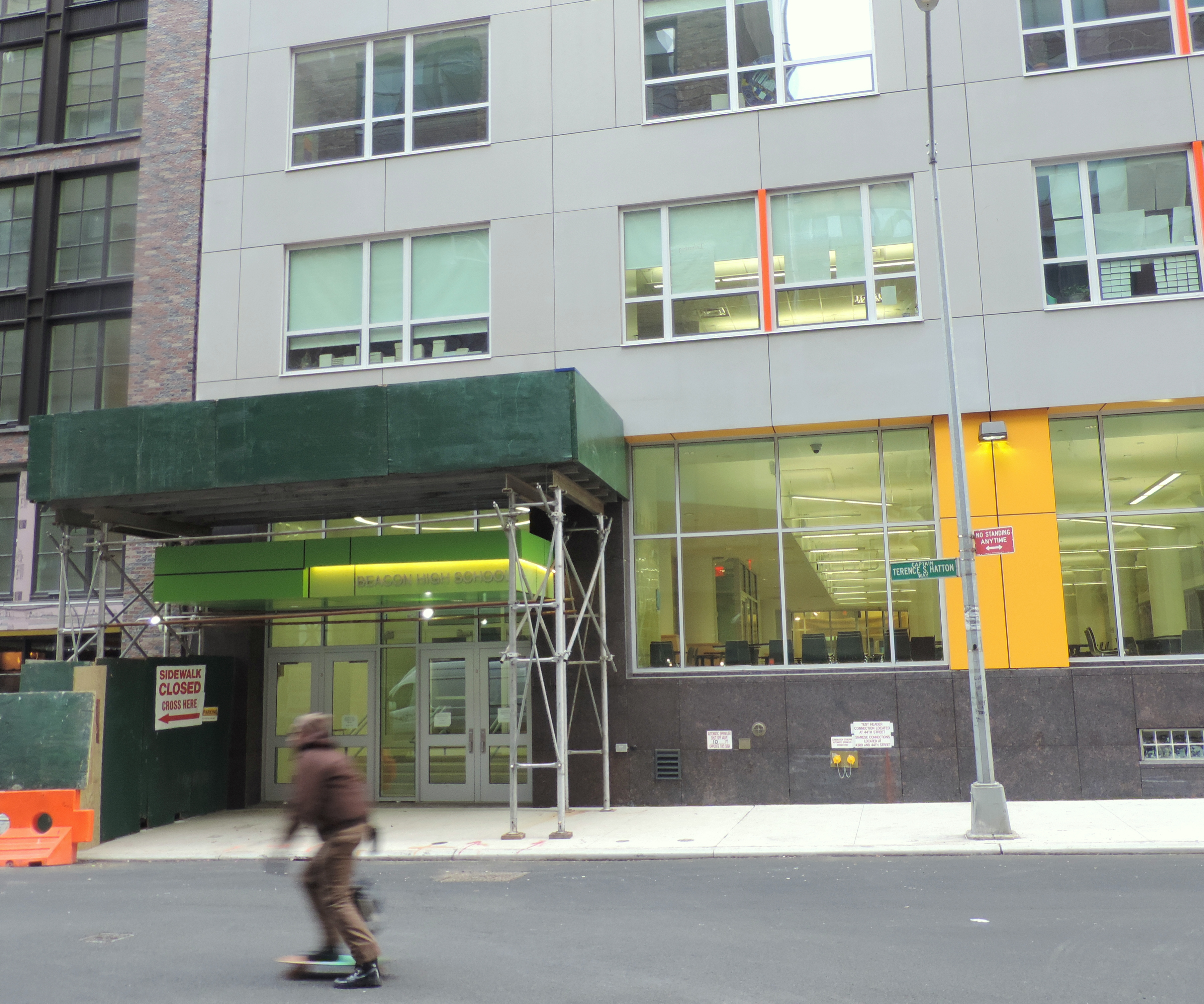 Looking north across 43d St at entrance of new Beacon High on a cloudy afternoon